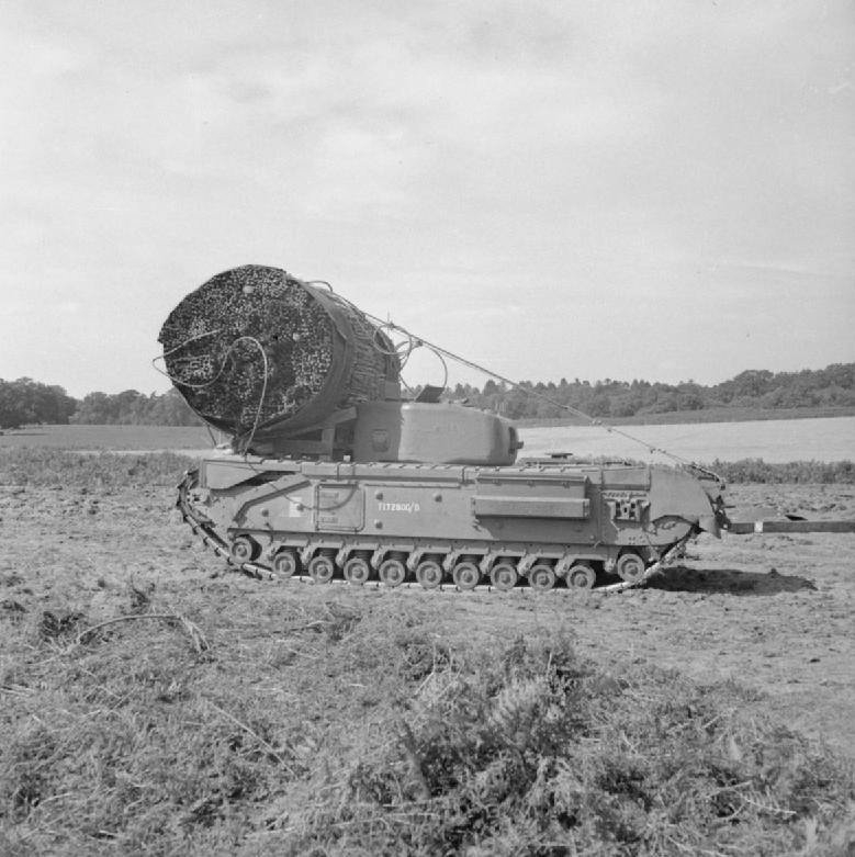 Churchill AVRE of 79th Armoured Division with fascine in position, Suffolk.